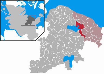 This map shows the area of the Gemeinde (municipality) Giekau in the Kreis (district) Plön, Schleswig-Holstein, Germany.